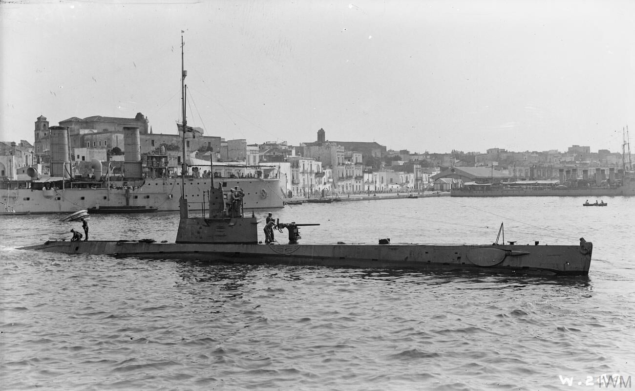 IWM caption : "HM Submarine H.4 at Brindisi, August 1916."